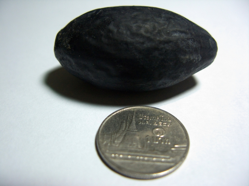 A fruit of Canarium tramdenum.